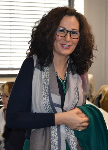 Michaela Mrowetz is a globally renowned Czech clinical psychologist and authorised expert